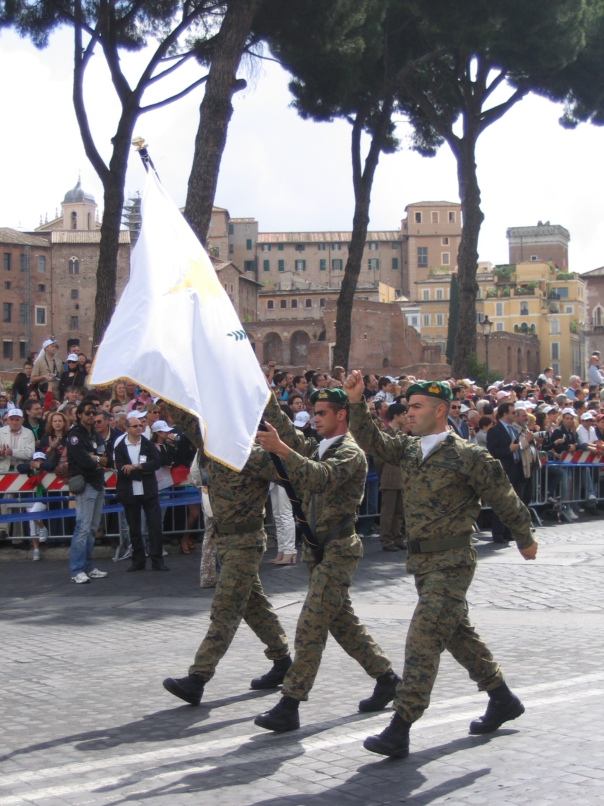 Representative of the Army of the Republic of Cyprus